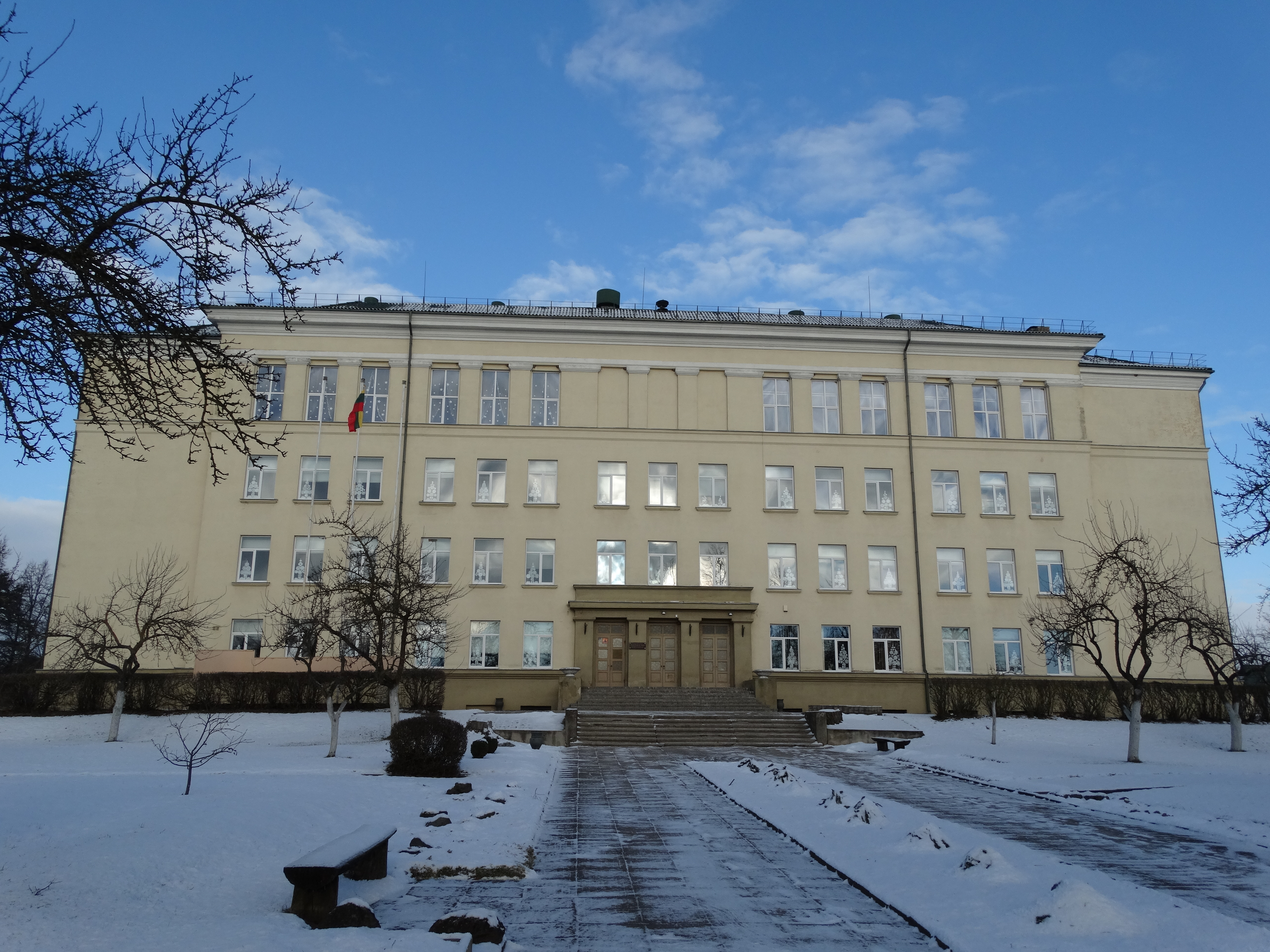 Atžalynas Gymnasium, Pakruojis, Lithuania